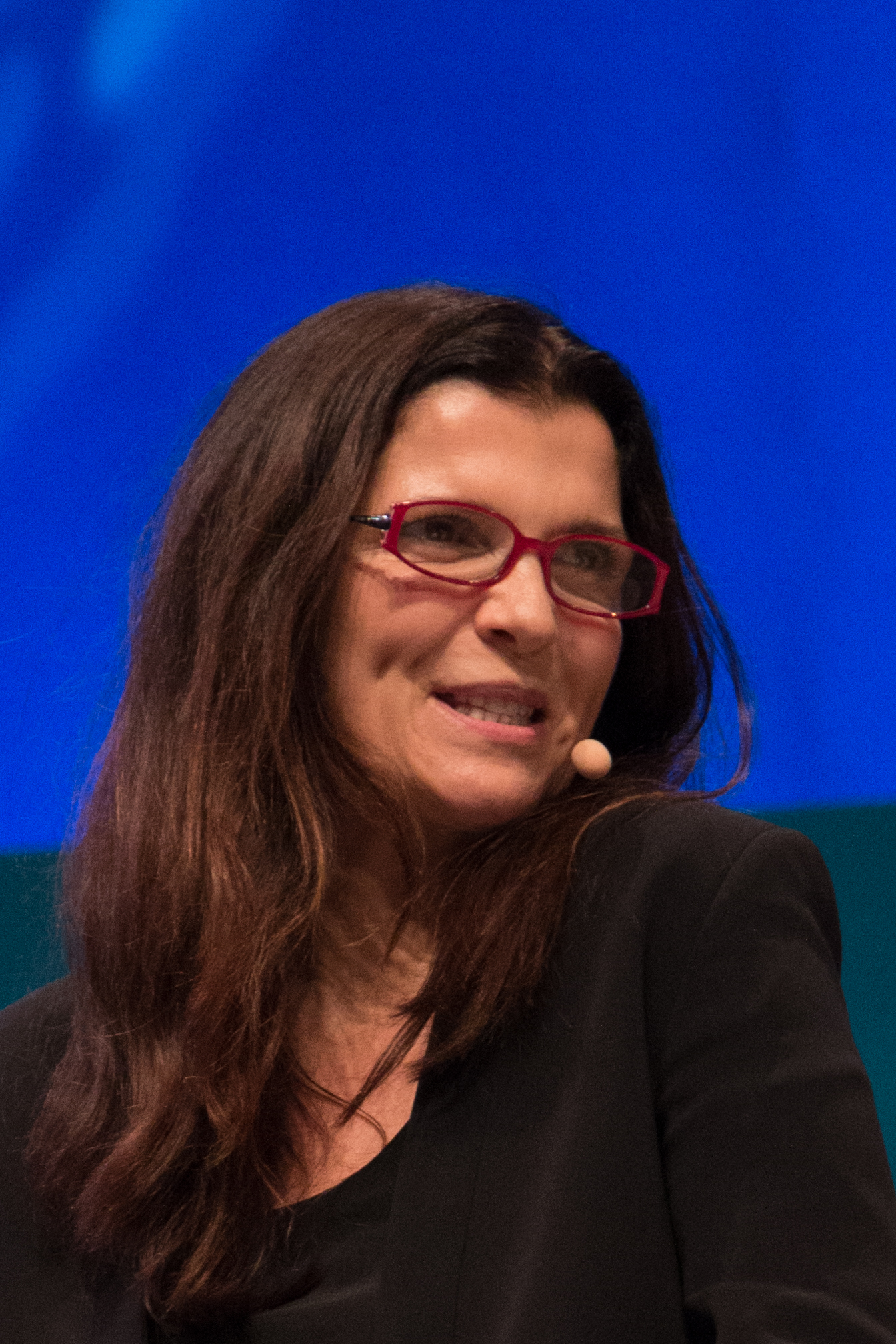 Alison Hewson at the 2014 One Young World Conference in Dublin, Ireland.